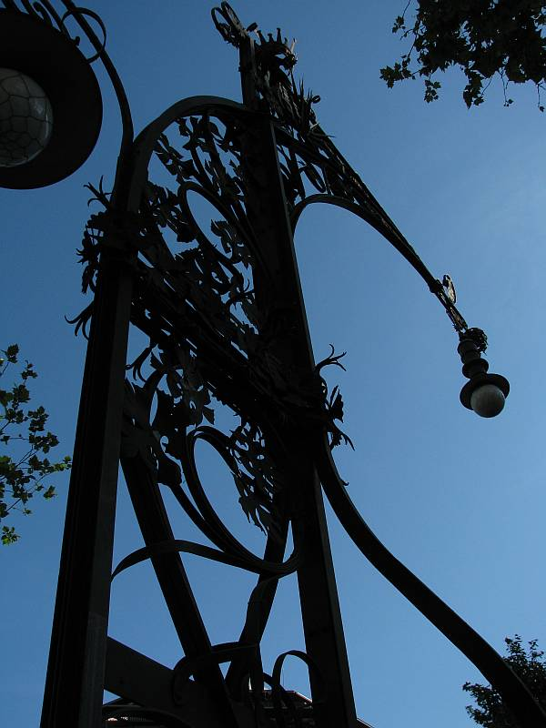 Paseo de Gracia, Barcelona, Spain